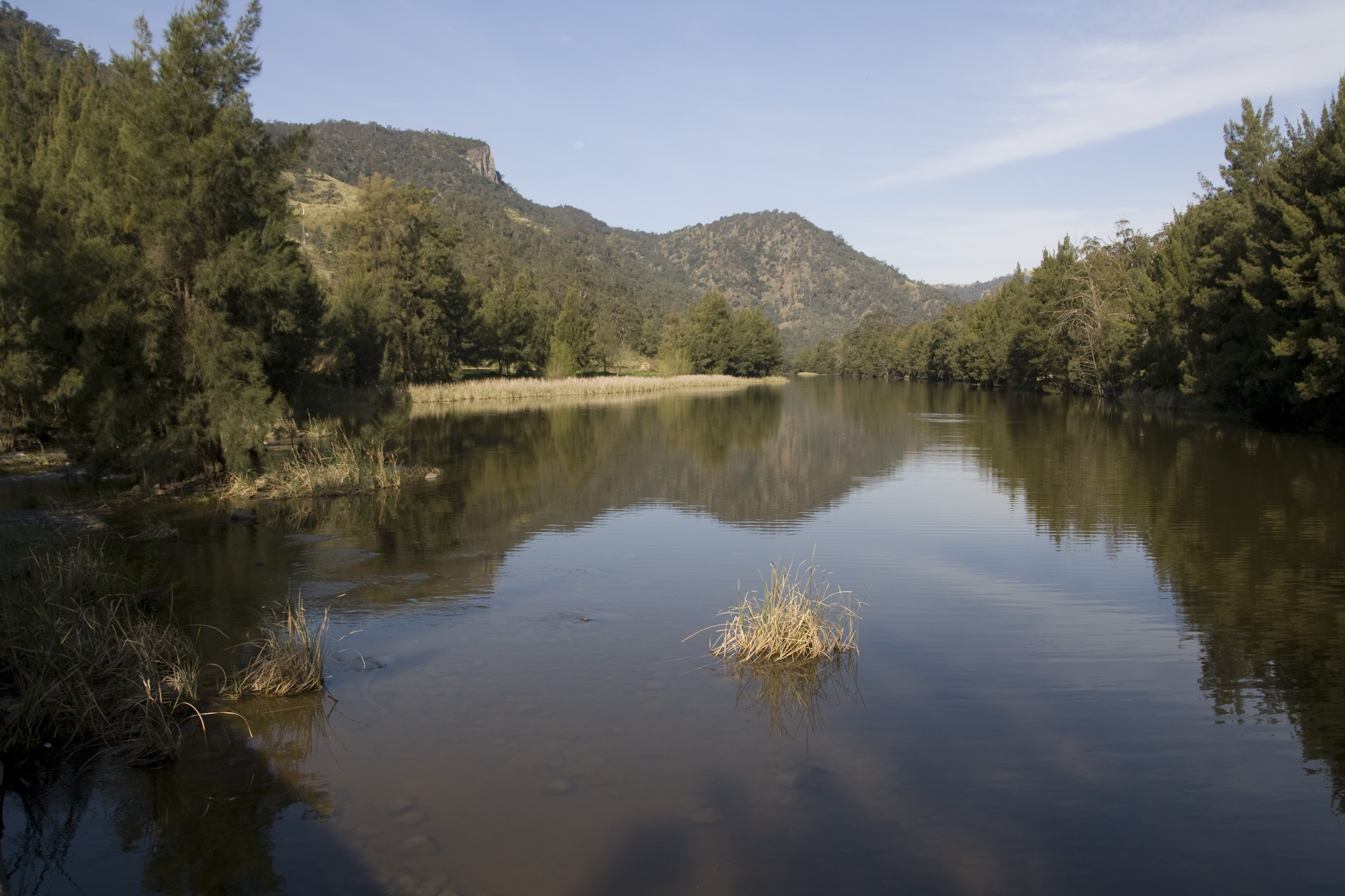 Wombeyan Caves Road